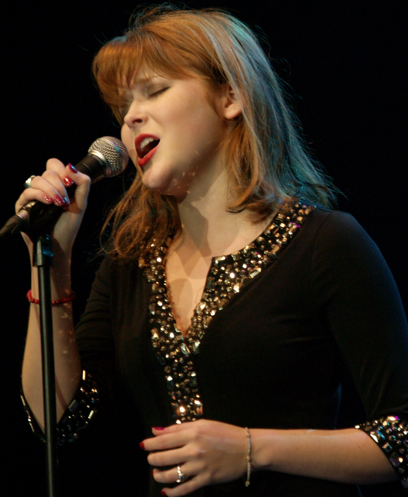 Renee Olstead, American jazz singer, performed in annual Java Jazz event in Jakarta 2008.